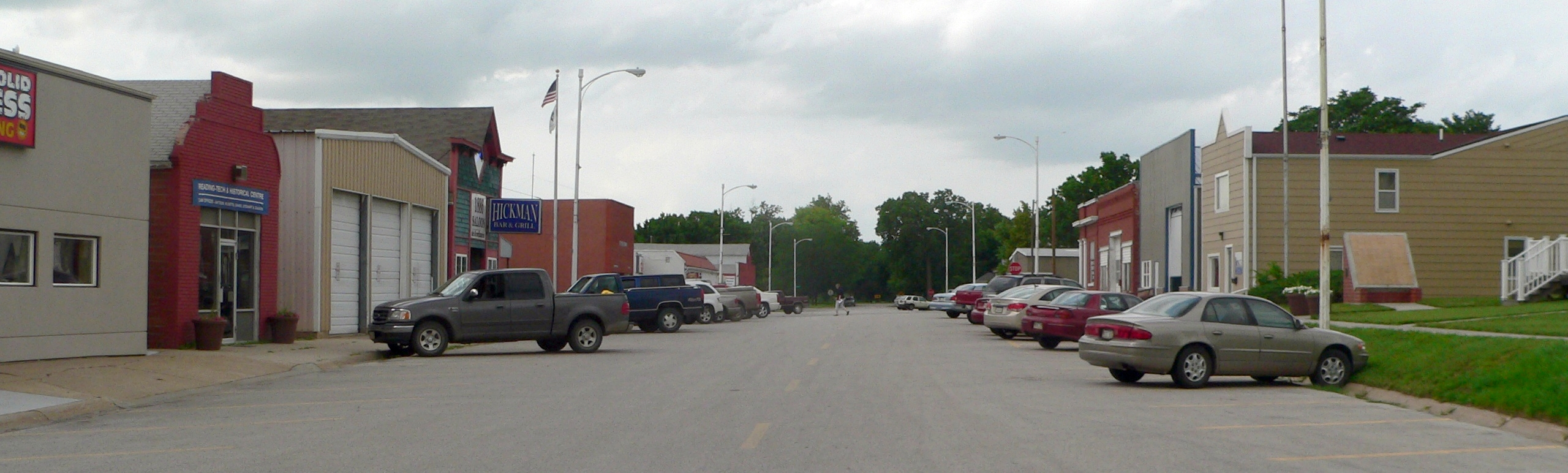 Downtown Hickman, Nebraska: Locust Street, looking north from about First Street.